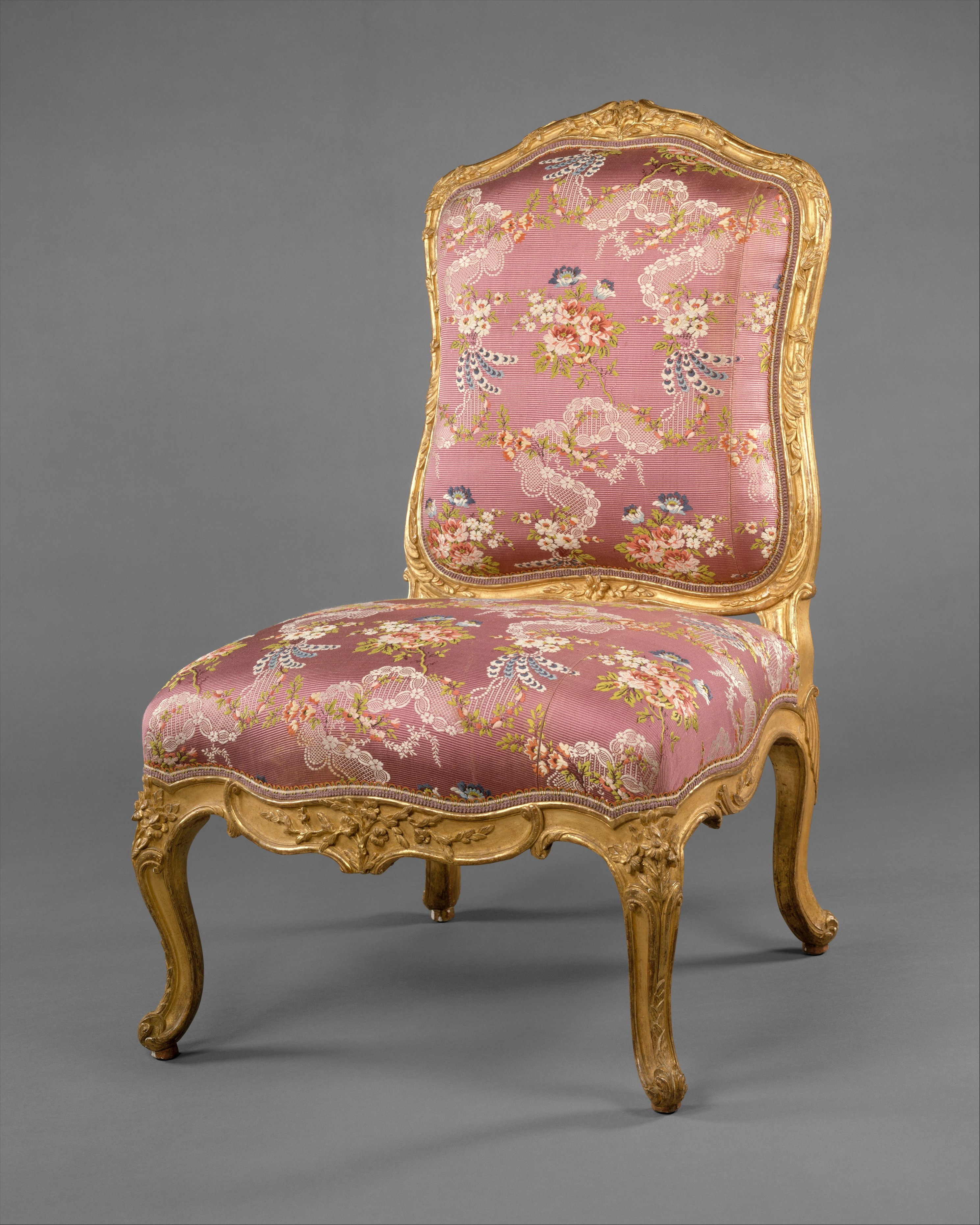 French; Side chairs; Woodwork-Furniture